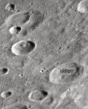 Lockyer lunar crater as seen from Earth with satellite craters labeled